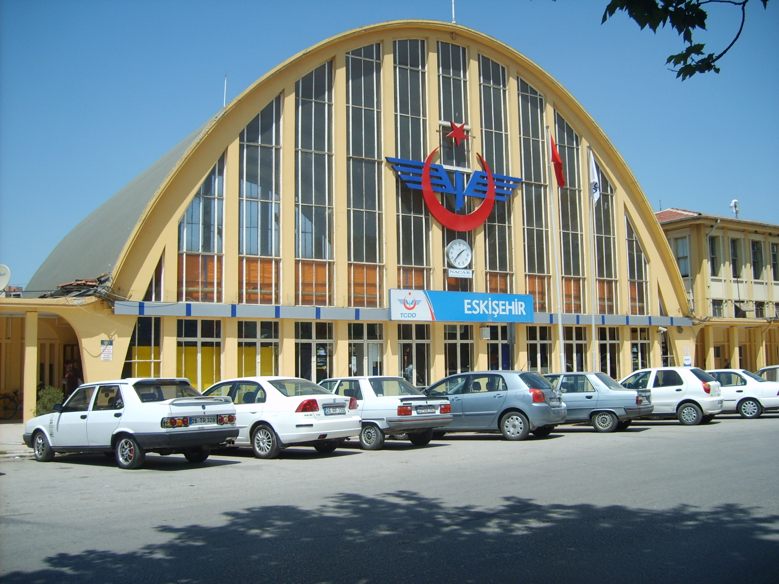 Eskişehir Rail Station